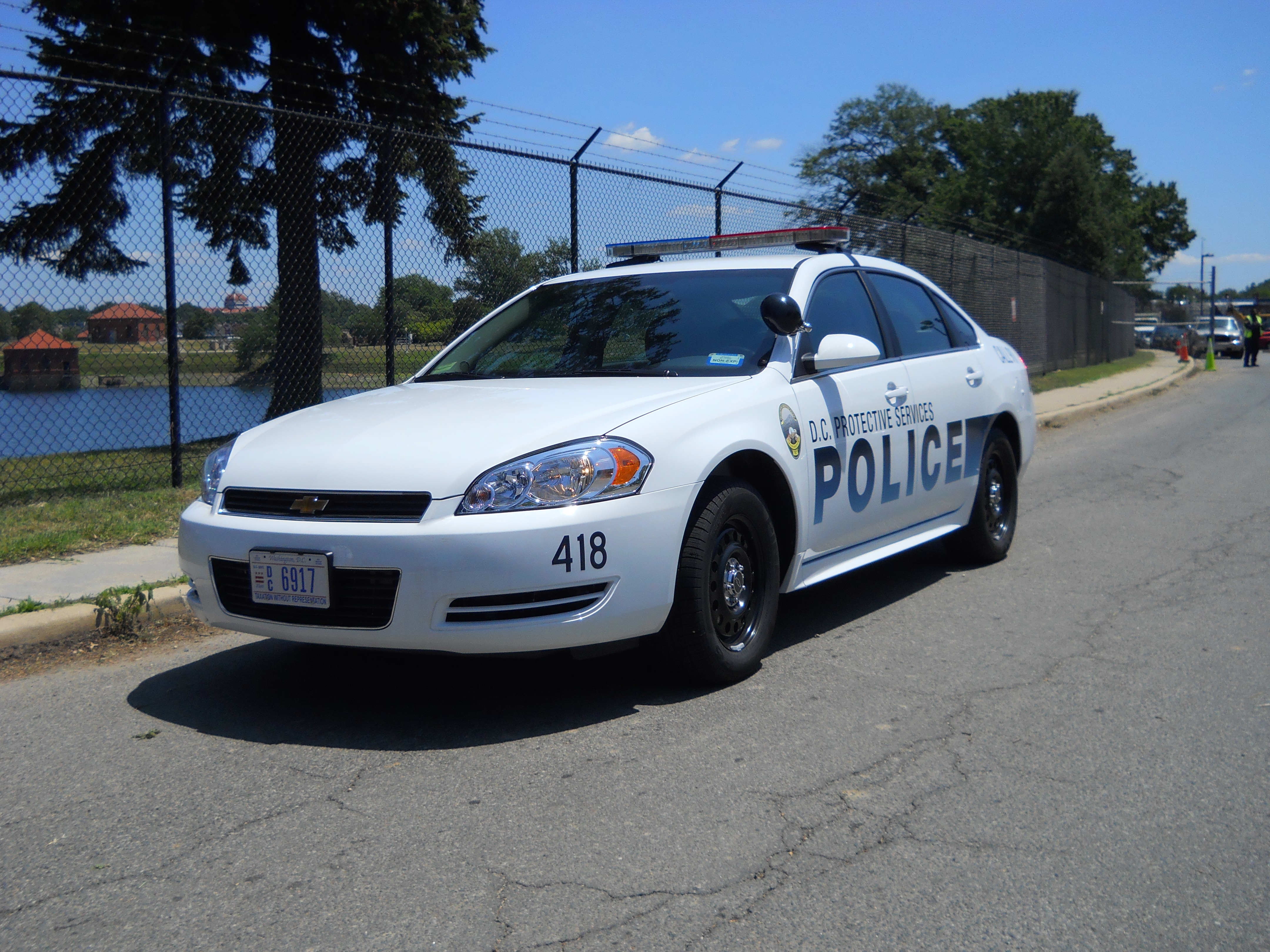 Cruise car of the District of Columbia Protective Services Police Department